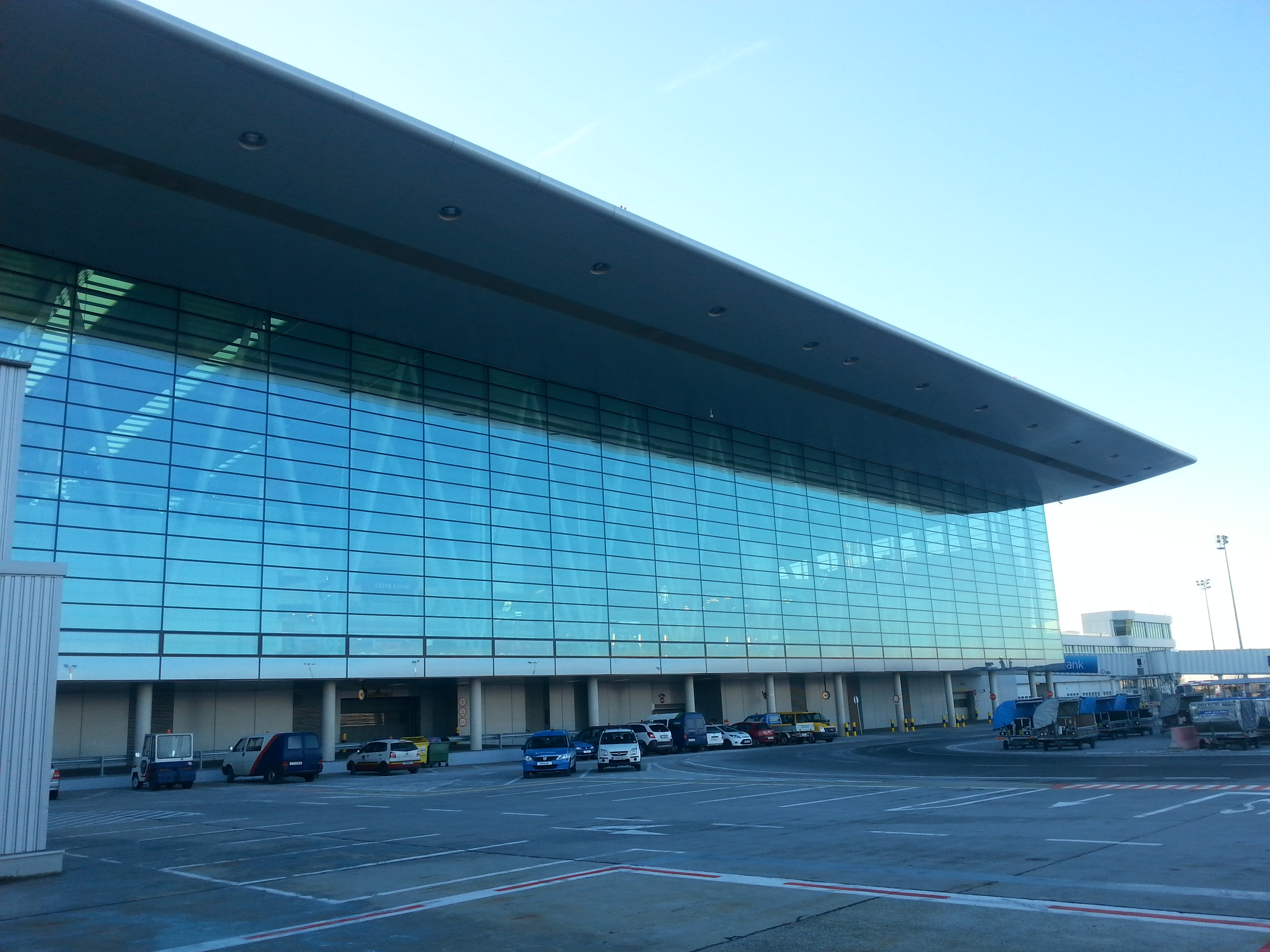 Budapest Liszt Ferenc International Airport outside of SkyCourt